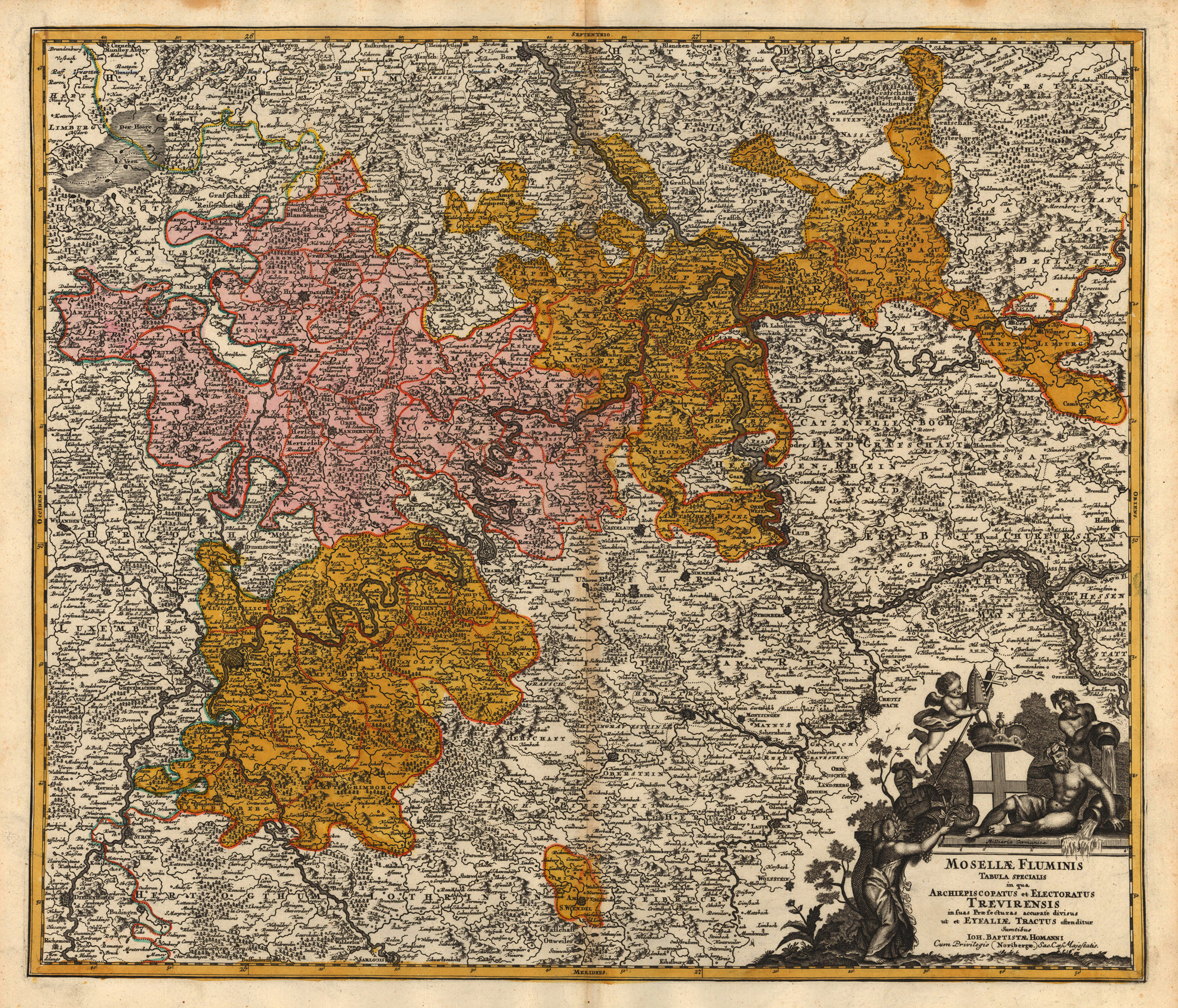 Detailled map of the Electorate of Trier with its subdivisions, by Johann Baptist Homann, c. 1720. A number of small enclaves and exclaves, including the territories of the independent Imperial Knights, are not indicated. The Archbishop-Elector's residence was at Ehrenbreitstein near Coblenz, at the eastern end of the Electorate.